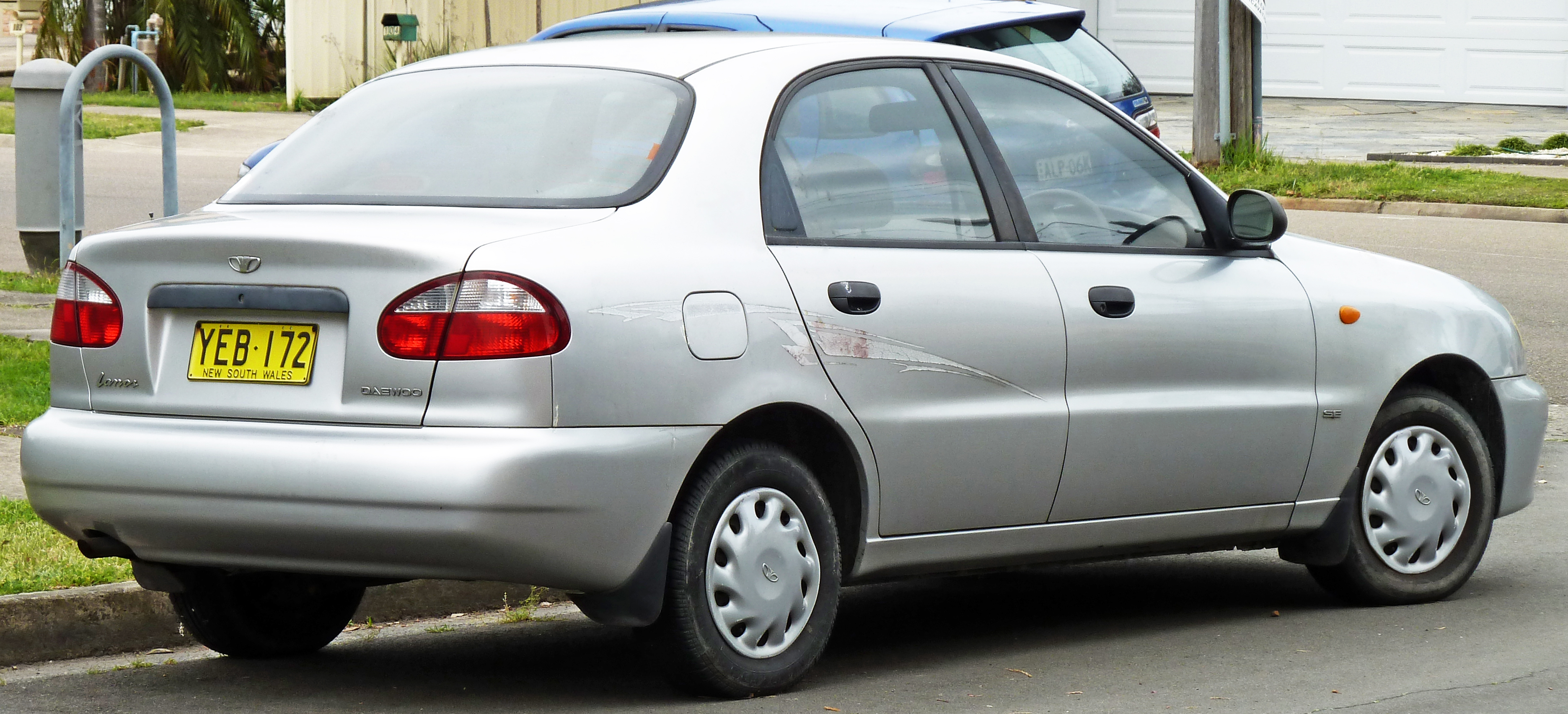 1997 Daewoo Lanos (T100) SE sedan. Photographed in Sandringham, New South Wales, Australia.